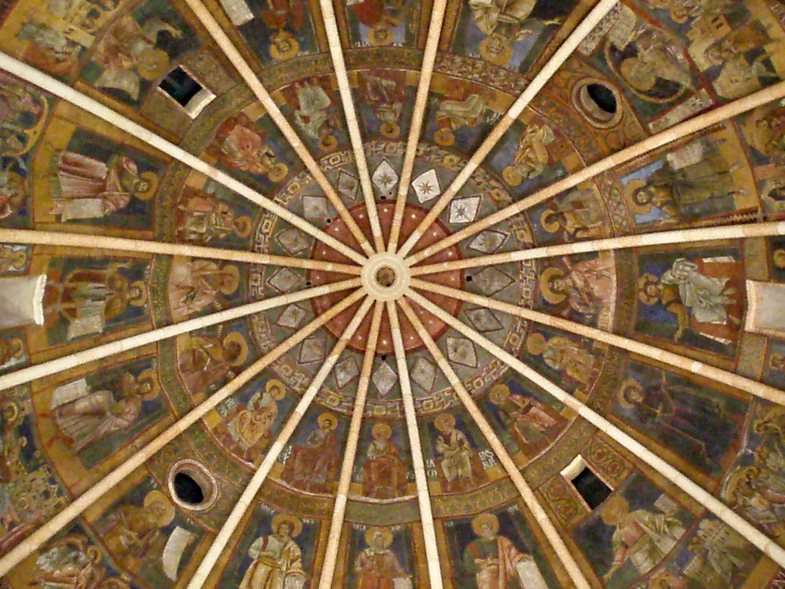 The painted ceiling of the Baptistry of Parma.